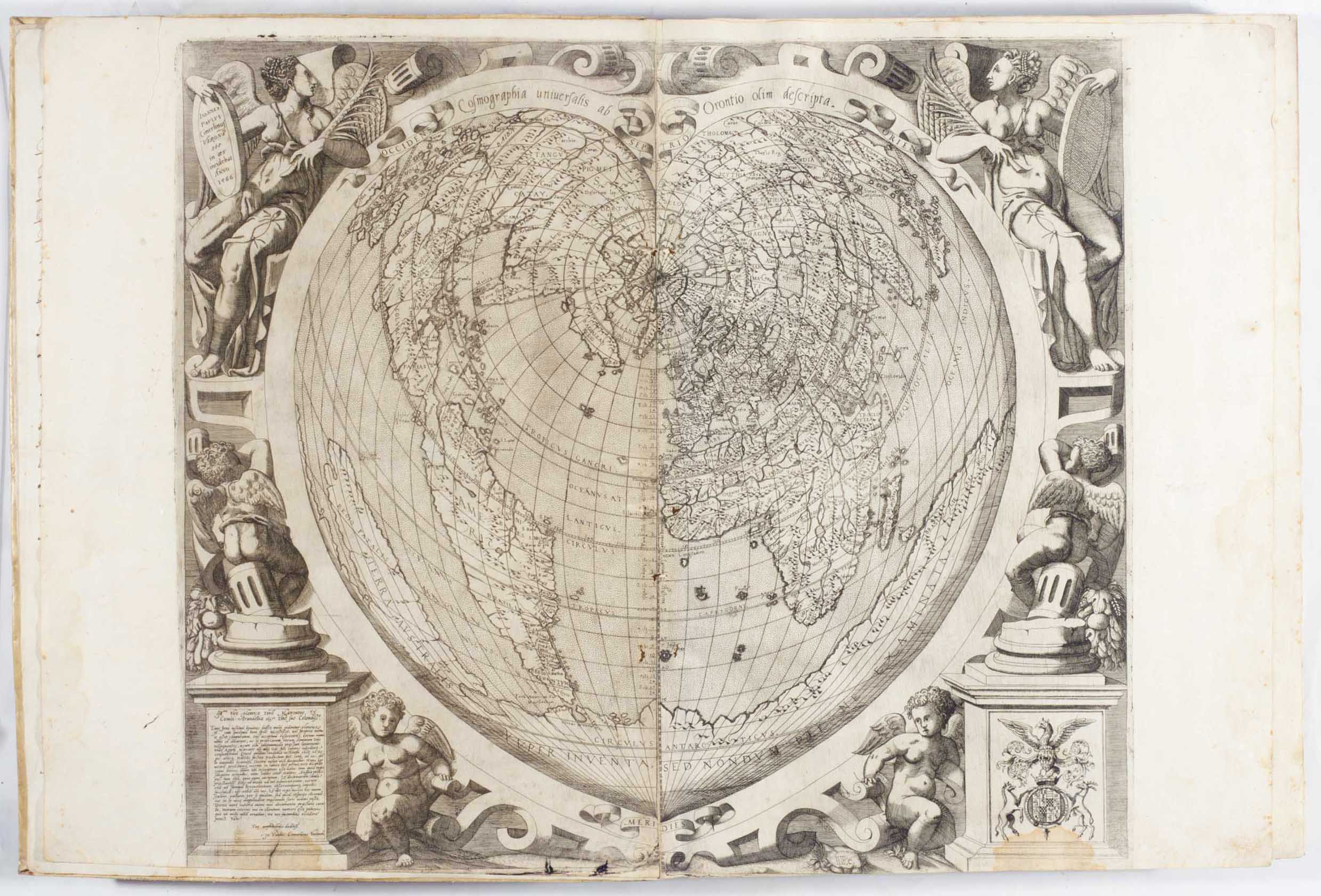 A printed map from the Doria Atlas comprising a mixture of manuscript and printed maps dating from the late 16th and early 17th centuries.